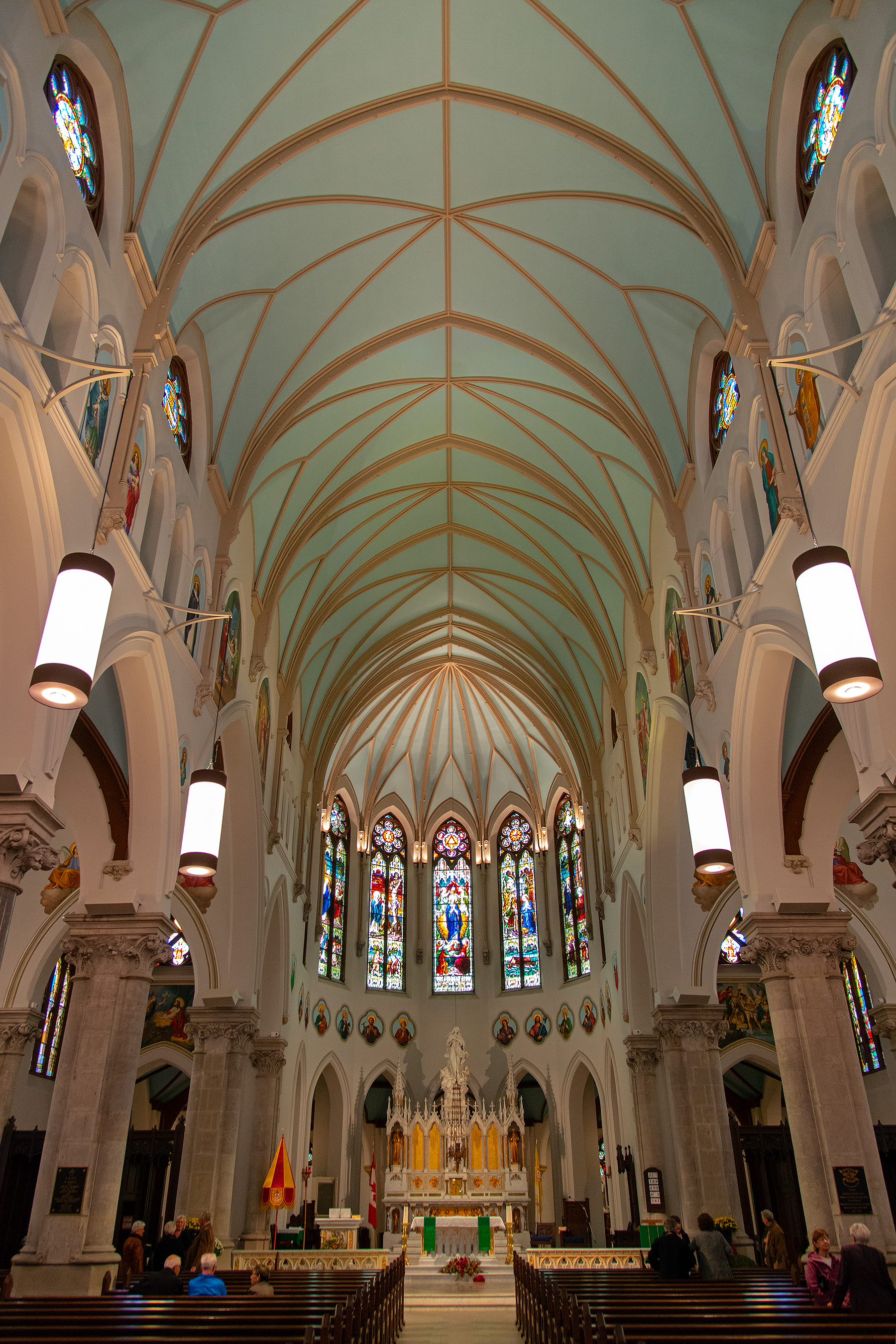 Basilica of Our Lady, Guelph, Ontario, September 2018